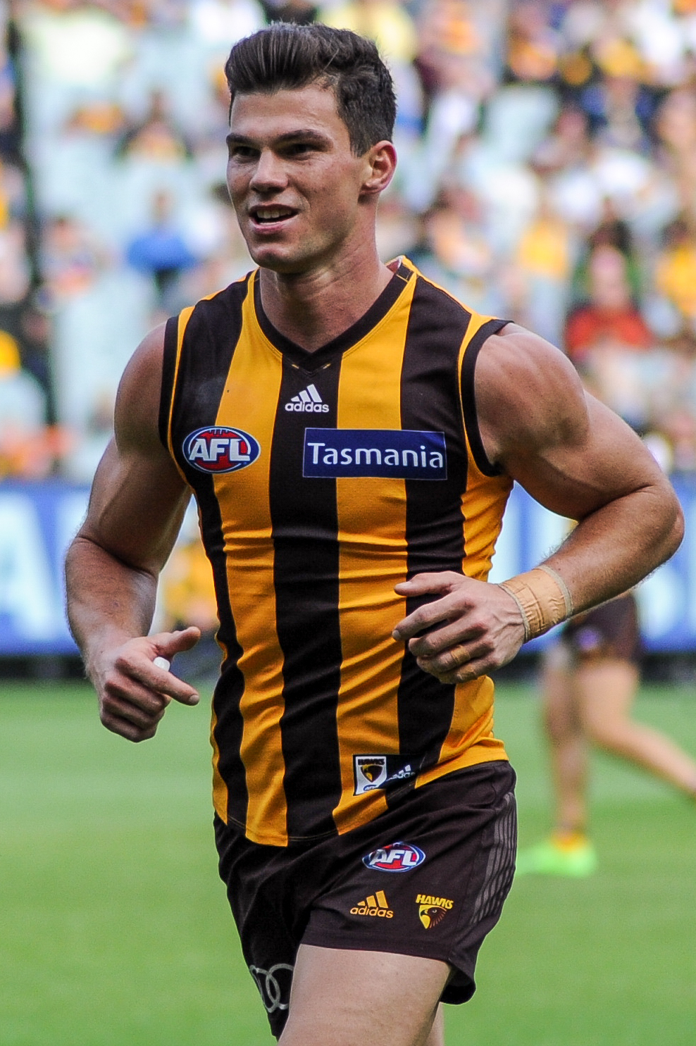 Jaeger O'Meara during the AFL round two match between Hawthorn and Adelaide on 1 April 2017 at the Melbourne Cricket Ground in Melbourne, Victoria.